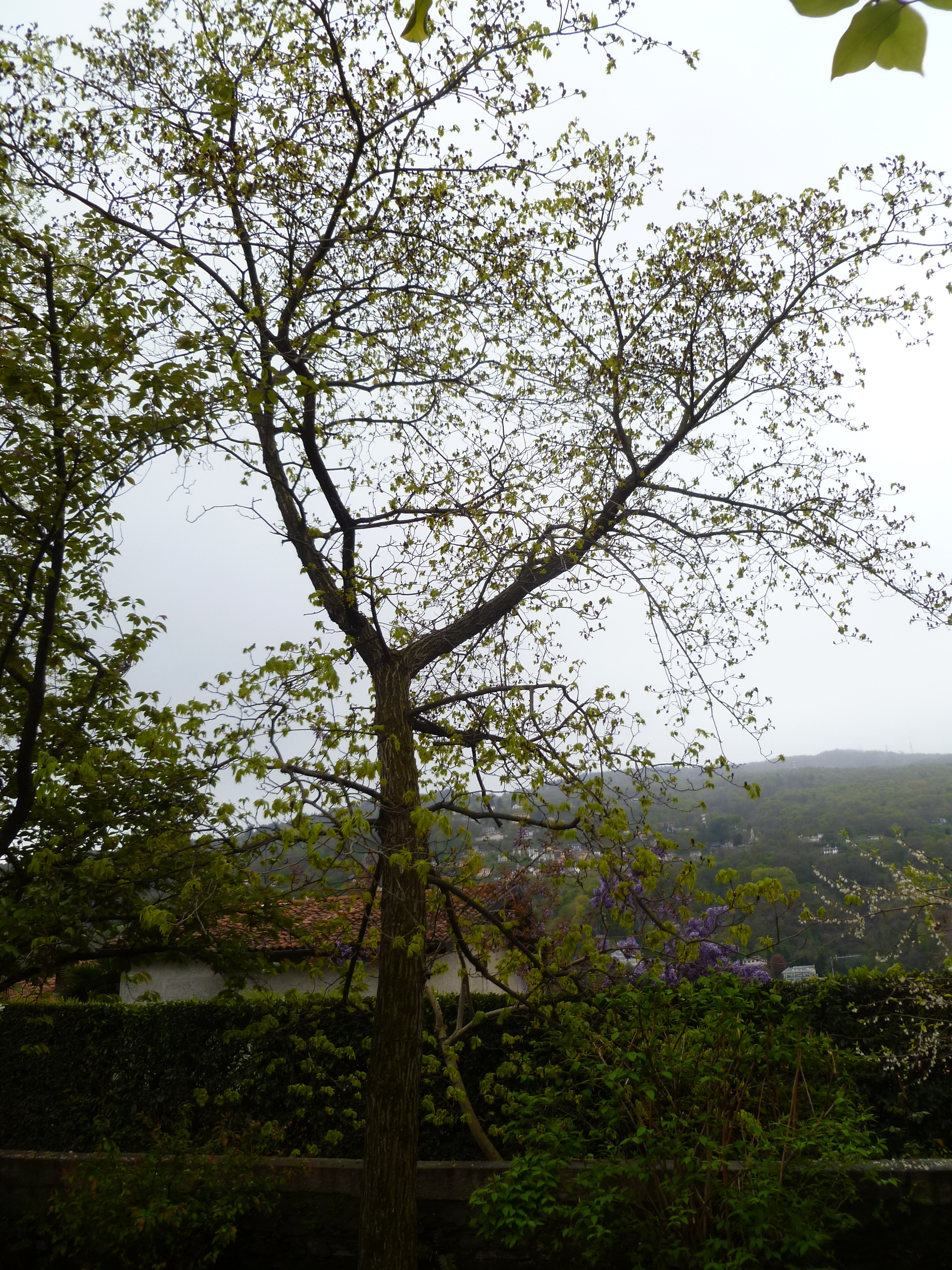 Platycarya strobilacea; family Juglandaceae; botanical gardens of the Palazzo Borromeo, Isola Bella, Italy